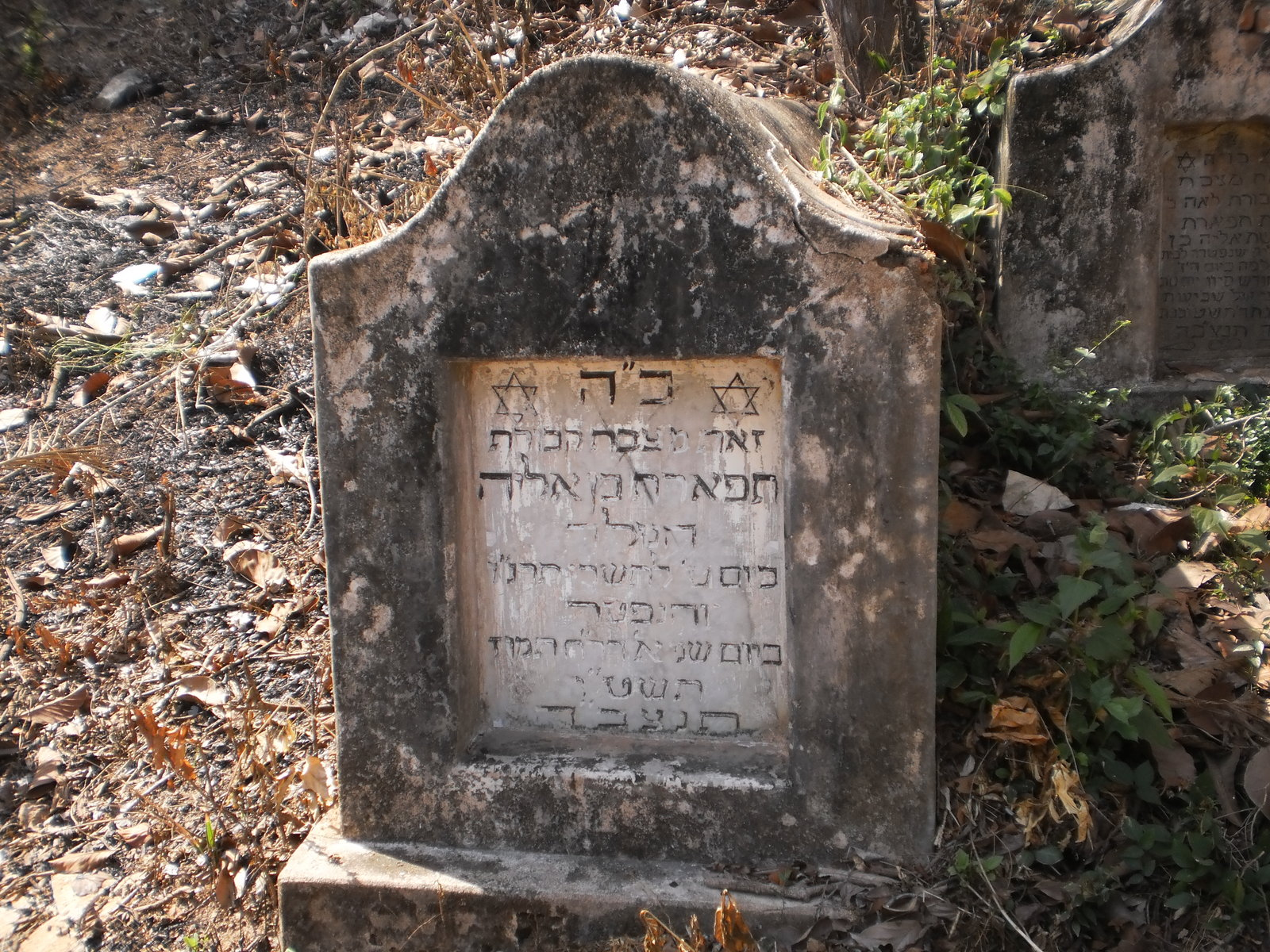 Tombs, Kottayil Kovilakam